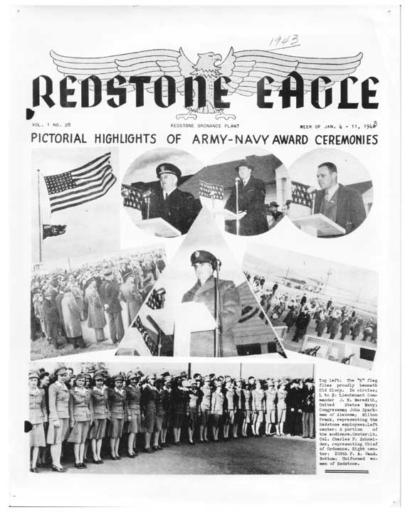 the Redstone Ordnance Plant weekly newspaper, the Redstone Eagle.